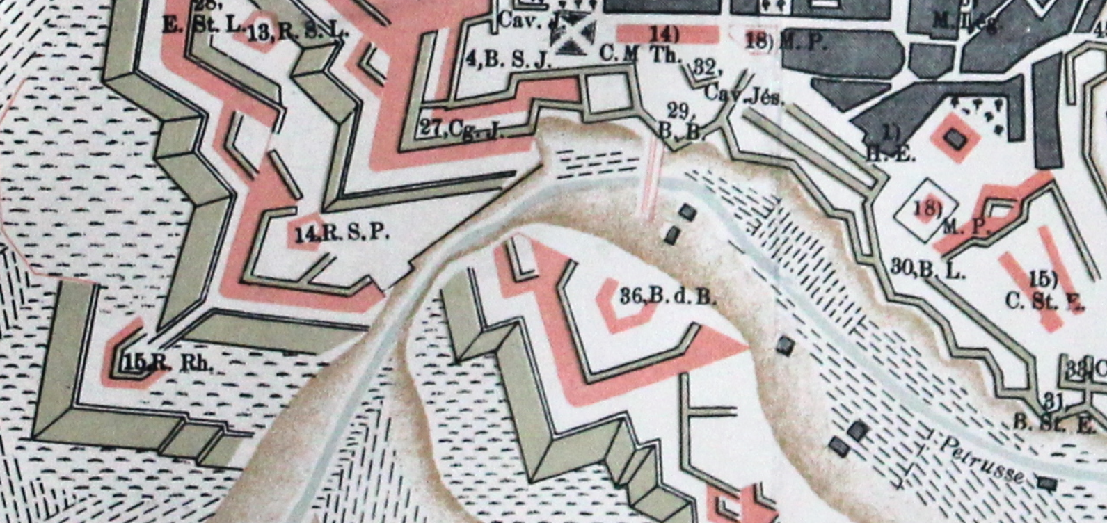 Alfred Lefort (1844-1909): Map of the fortress Luxembourg in 1794: Extract: South-Western works. "15 R. Rh." = Reduit Rheinsheim (left bottom corner). "14. R. S.P." = Réduit Saint Pierre; "36. B. d. B." = Bastion détaché Bourbon